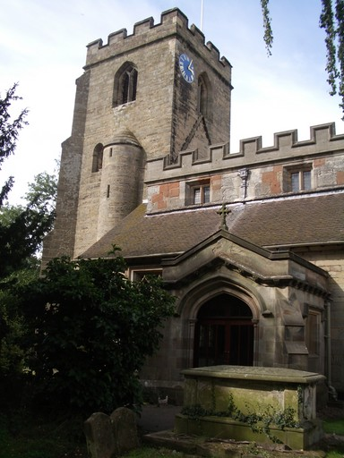 West tower and south porch of the parish church of SS Mary and Bartholomew, Hampton-in-Arden, West Midlands, seen from the southeast